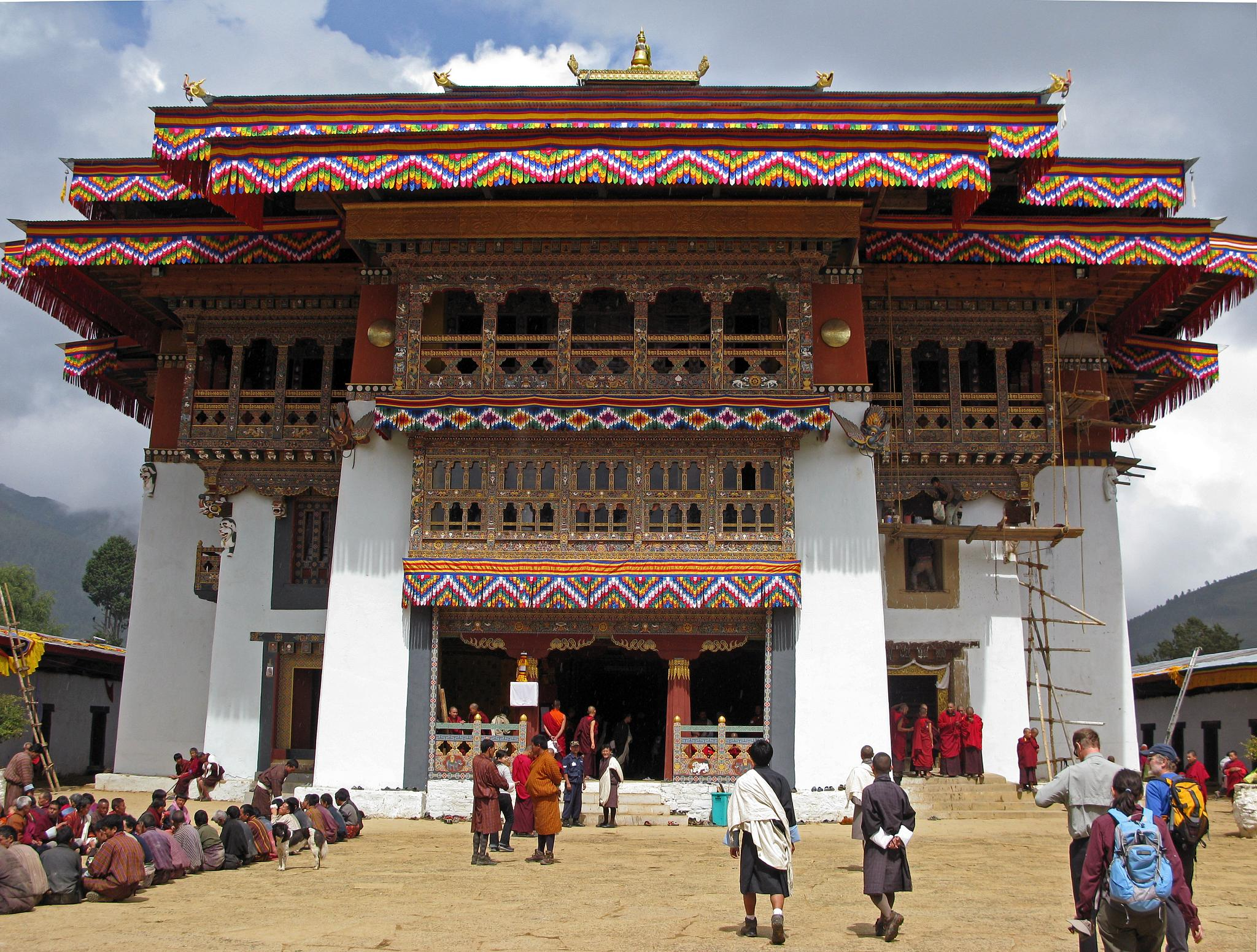 Main Temple Gangte Goemba